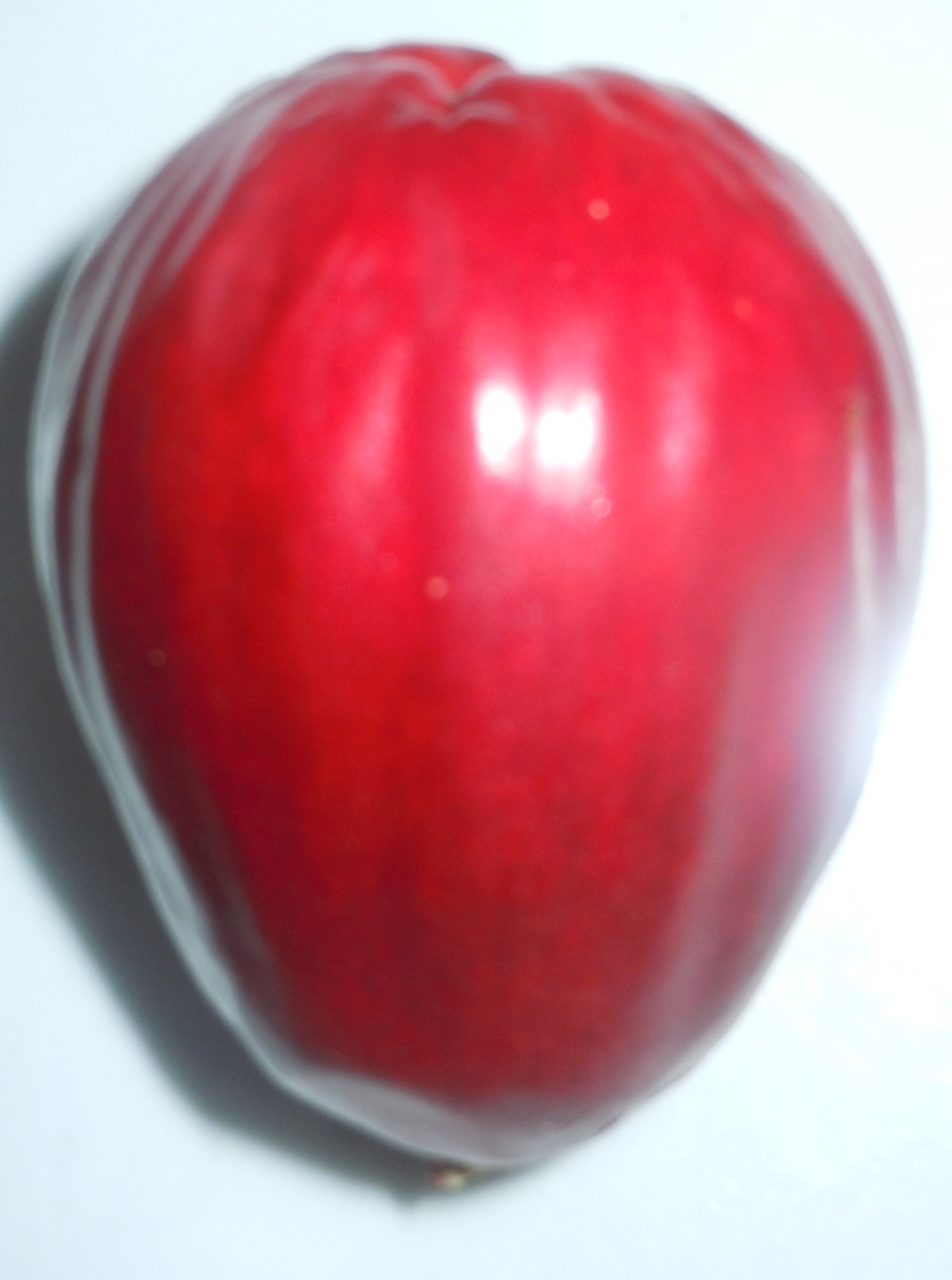 pommerac.whole